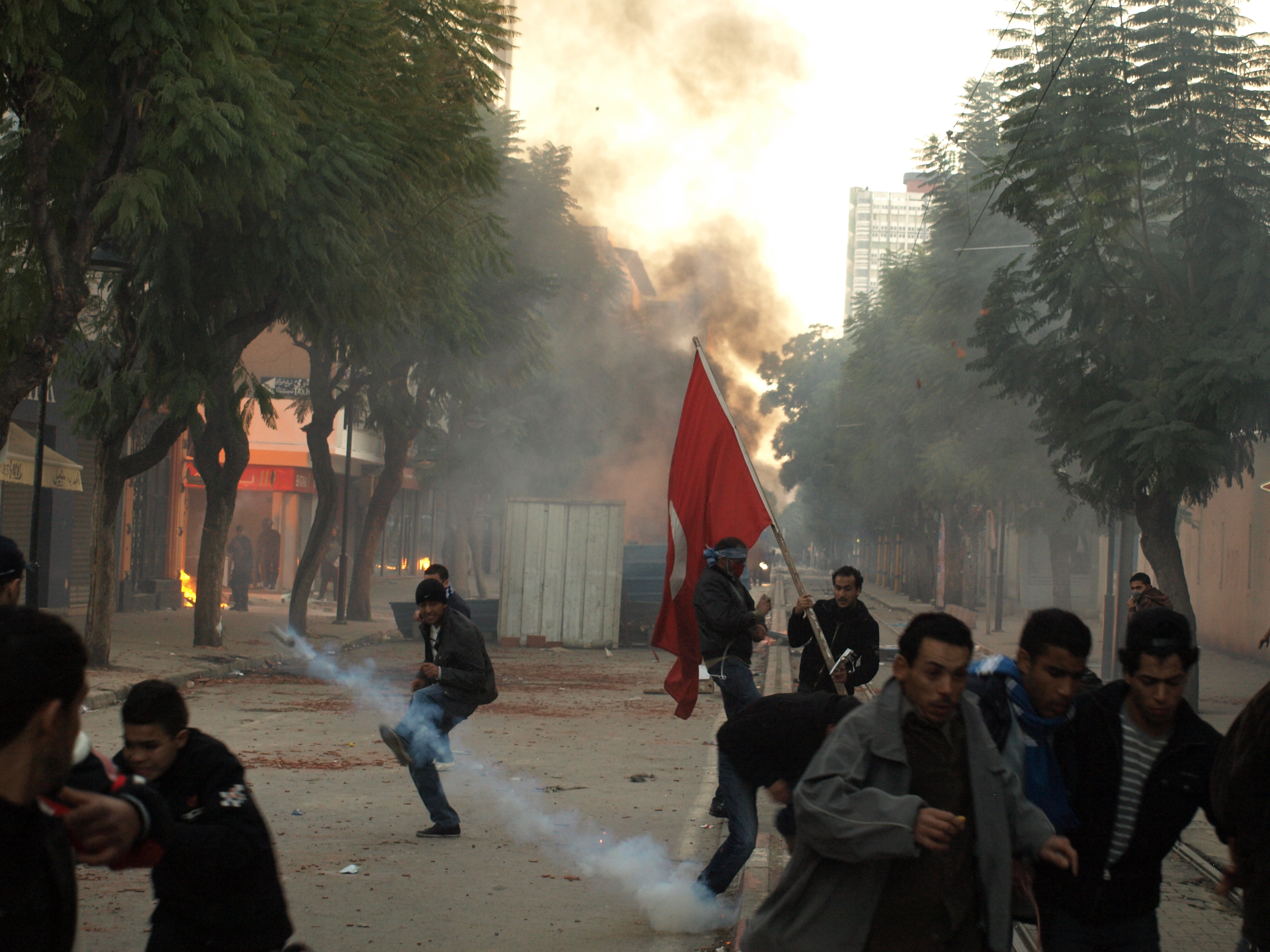 The police often fired tear gas grenades not in a great arc but horizontally.